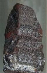 Violet phosphorus sample